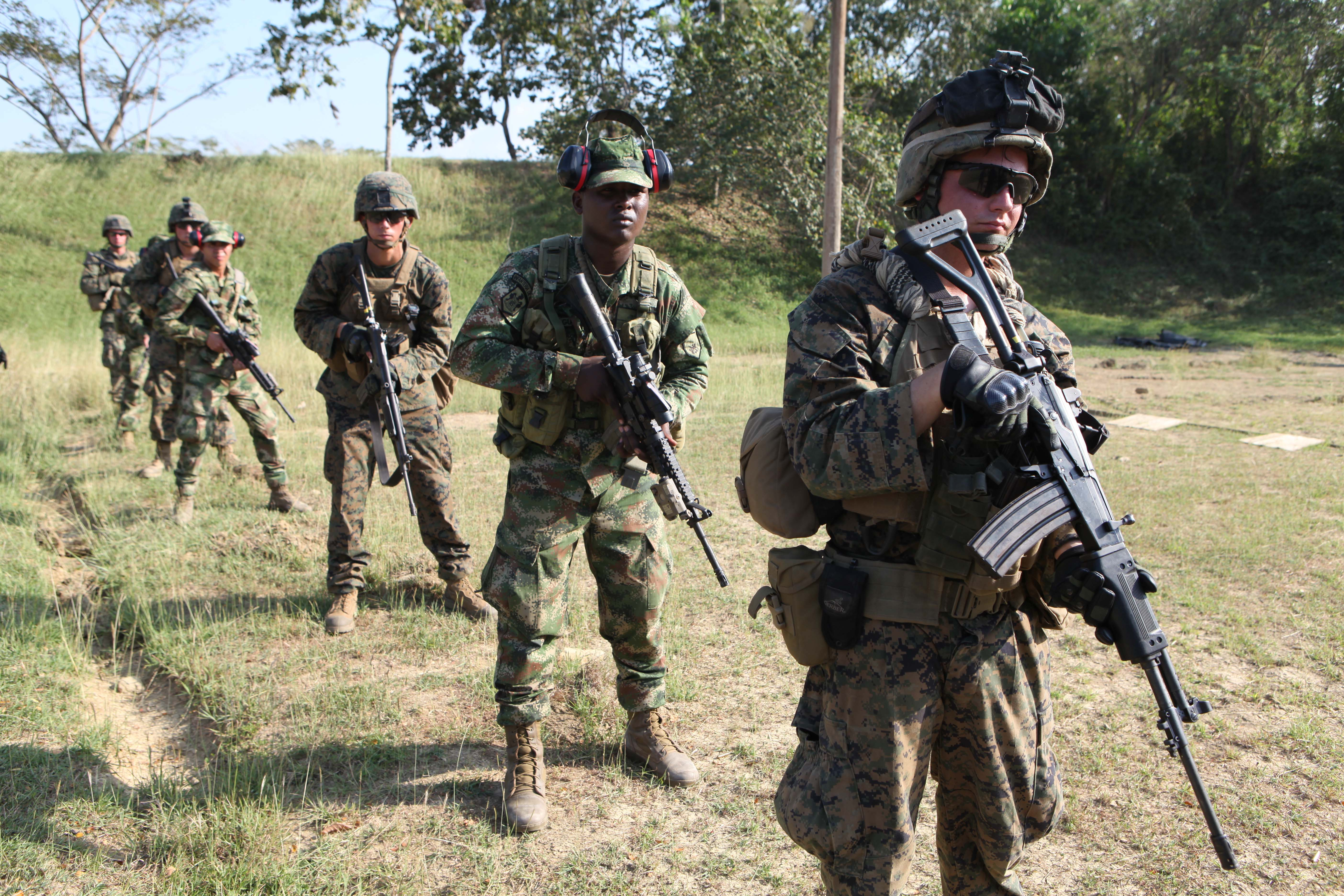 U.S. Marines with Security Cooperation Task Force (SCTF) hold the primary weapon used by Colombian Marine Professionals, the Galil assault rifle, while Colombian Marine Professionals hold the U.S. Marine Corps' primary weapon, the M4 carbine rifle, as they stand on the firing line at Marine Infantry Training Base in Covenas, Feb. 1. U.S. and Colombian Marines fired several weapons during a subject matter expert exchange (SMEE) in support of Amphibious Southern Partnership Station 2011 (A-SPS 11). A-SPS 11 will focus on strengthening our existing regional partnerships and encouraging the establishment of new relationships through the exchange of maritime mission-focused knowledge and expertise so each participating country will improve capabilities in what it considers key maritime security mission areas. (U.S. Marine Corps photo by Cpl. Brittany J. Kohler)